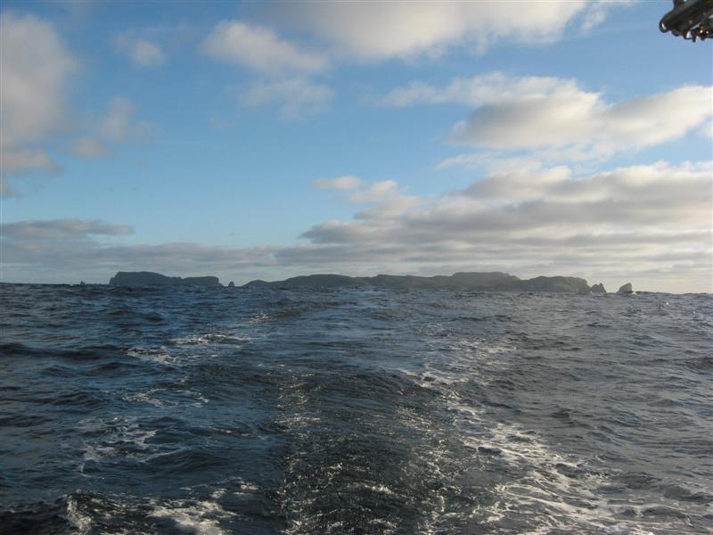 Snares Islands, New Zealand - viewed from the North East. Broughton Island on the left and Dapton Rocks on the right.